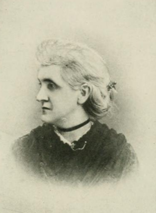 Sarah Killgore Wertman (1 March 1843, Clinton County, Missouri - 21 May 1935, Seattle) from page 759 of A woman of the century; fourteen hundred-seventy biographical sketches accompanied by portraits of leading American women in all walks of life